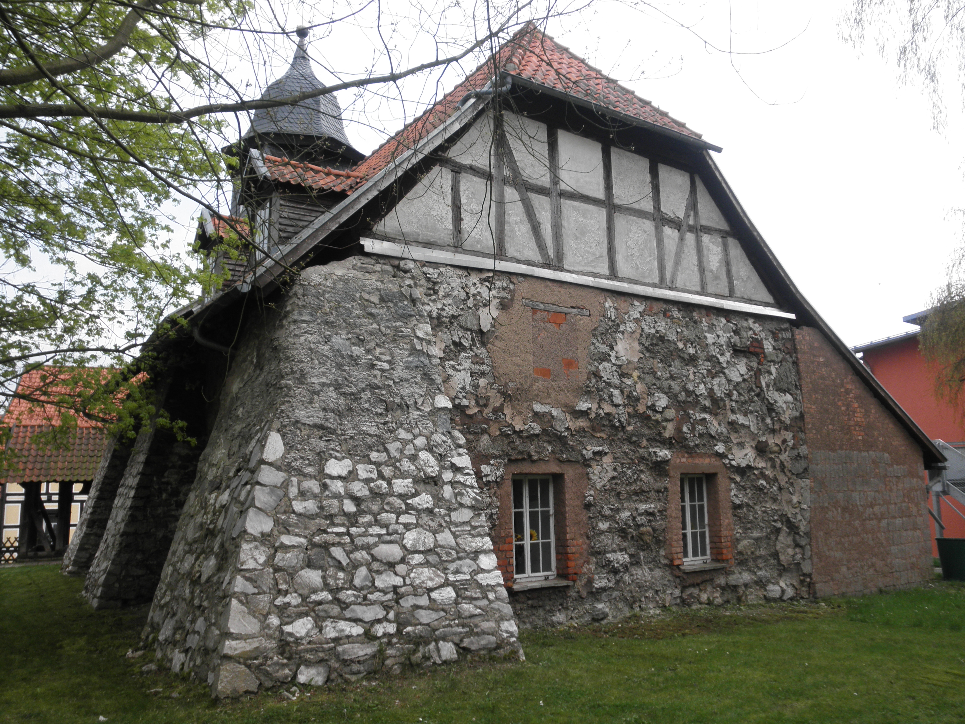 Church in Petersdorf (Nordhausen) in Thuringia